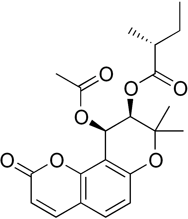 chemical structure of visnadine